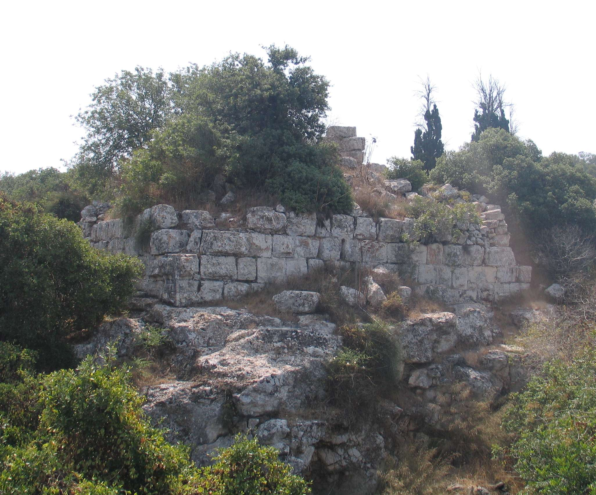 Mount Tabor - Fortifications.